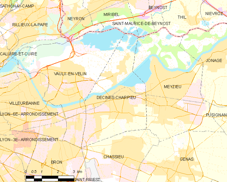 Map of French municipality